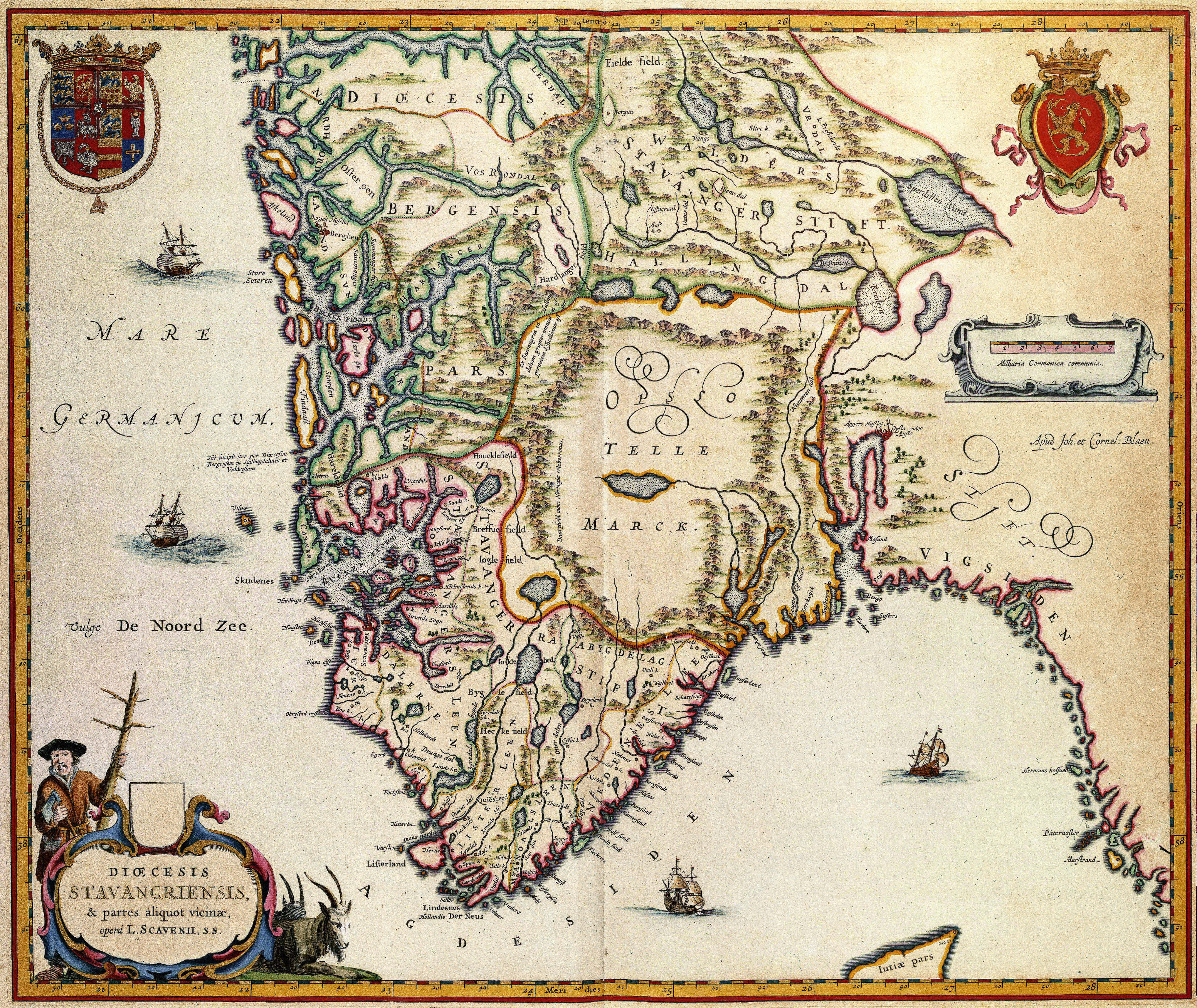 Beginning 17th century, the Bisshop of Stavanger, Laurids Claeusen Scavenius (1562-1626), drew up a survey map of his bisshopry, the Stavanger Stift. Although the map did present a reliable representation it is questioned that all small islands in the area of fjords are represented correctly. From the third quarter of the 17th century onwards several enhanced exemplaries appeared in Dutch atlases. This map was published in 1638 by the brothers Joan Blaeu (1598-1673) and Cornelius Blaeu (c. 1610-1642).